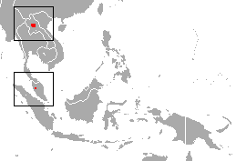 Convex Horseshoe Bat (Rhinolophus convexus) range